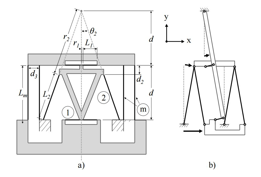 An exact-constraint compound flexure design.